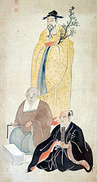 Three gods of papermaking (Cai Lun, Donchō, Mochizuki Seibee), Minobu Town Museum of History and Folklore, Minobu, Yamanashi, Japan